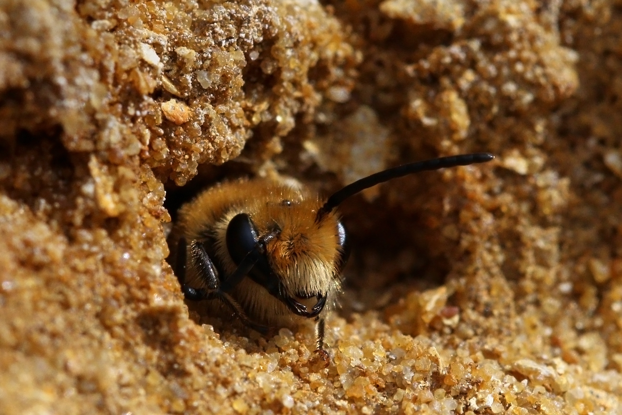 Ivy bee (Colletes hederae) male, Dry Sandford Pit, Oxfordshire